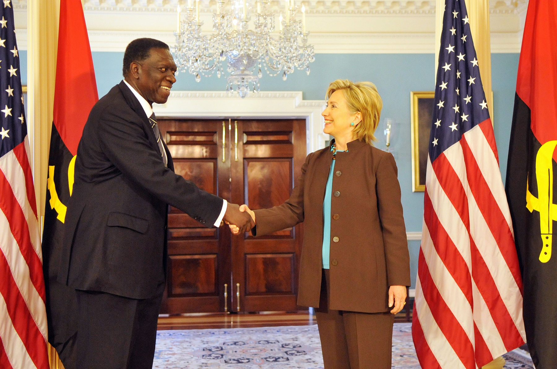 U.S. Secretary of State Hillary Rodham Clinton hosts a bilateral meeting with Angolan Minister of External Affairs Ansuncao Afonso dos Anjos in the Treaty Room of the U.S. Department of State in Washington, DC May 21, 2009. State Department photo by Michael Gross